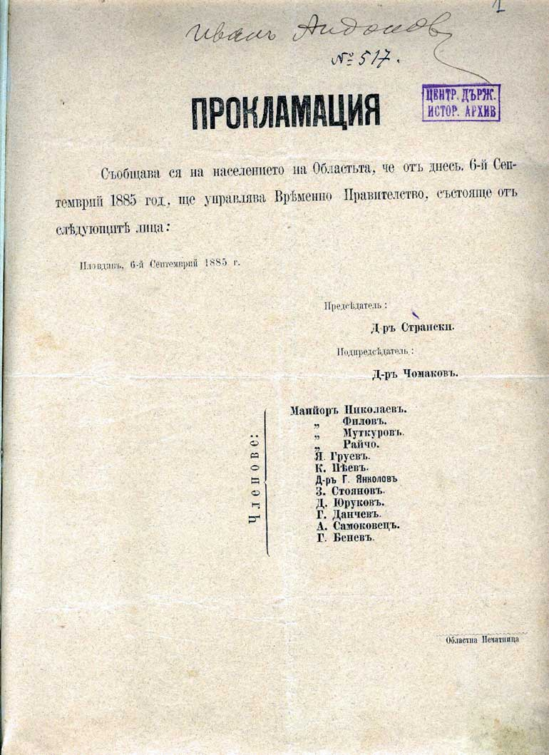 Proclamation of the Provisional Government of Eastern Rumelia.